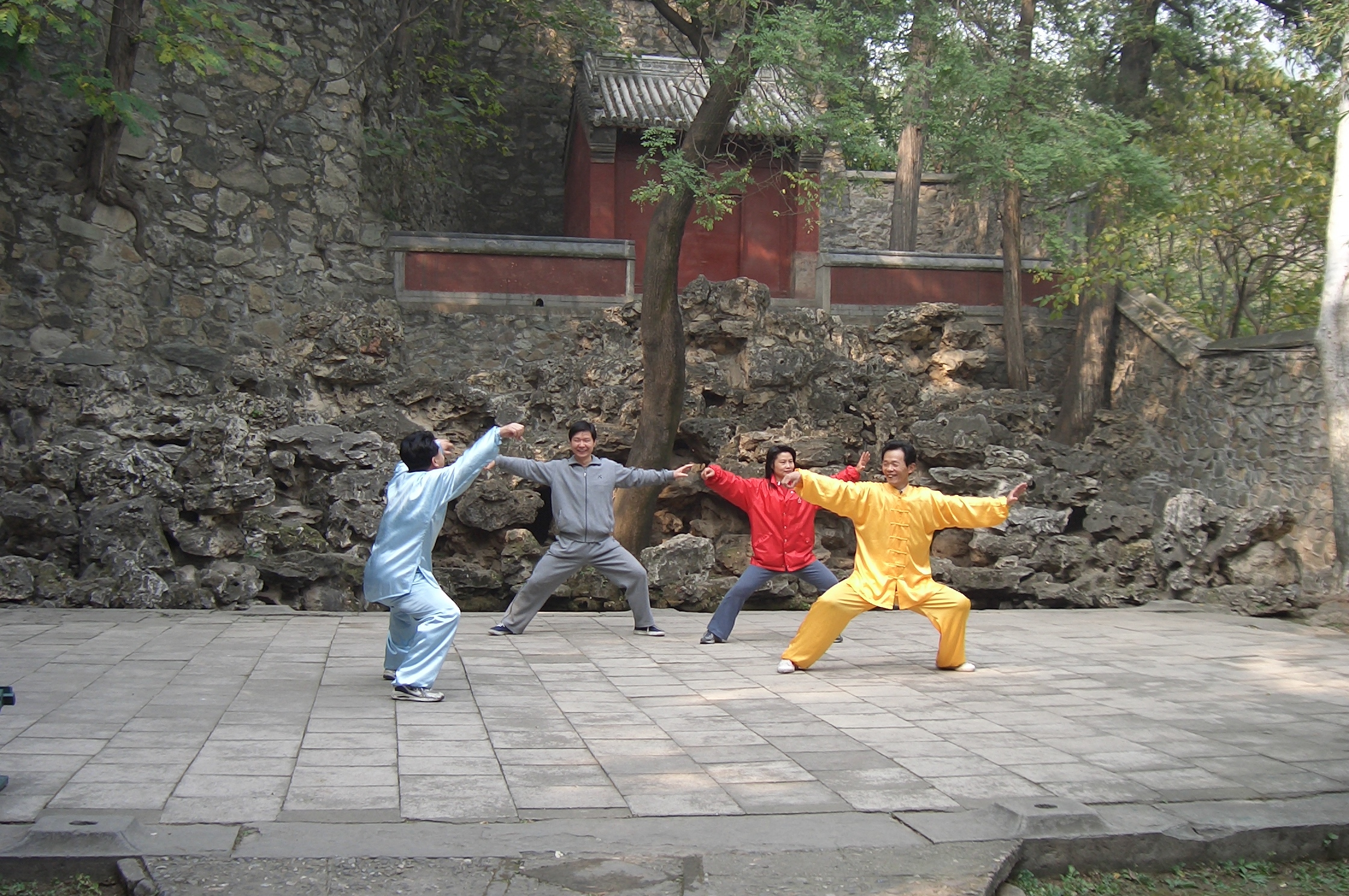 Martial arts is a popular pastime in China. This photo of a Chen style Taijiquan class was taken at Fragrant Hills Park, Beijing, China.